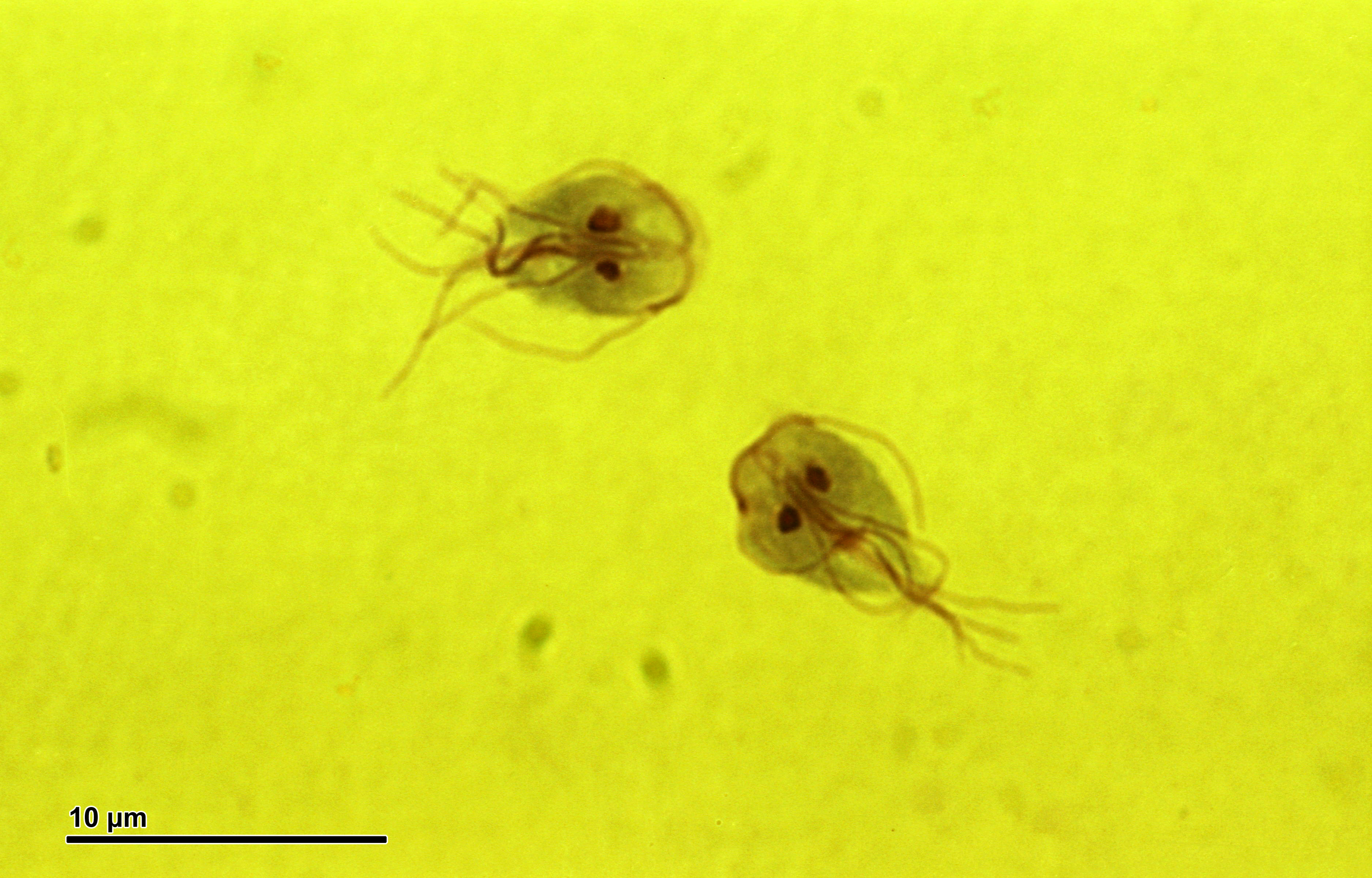 Giardia intestinalis (Giardia intestinalis ). Optical microscopy technique: Bright field. Magnification: 6000x (for picture width 26 cm ~ A4 format).